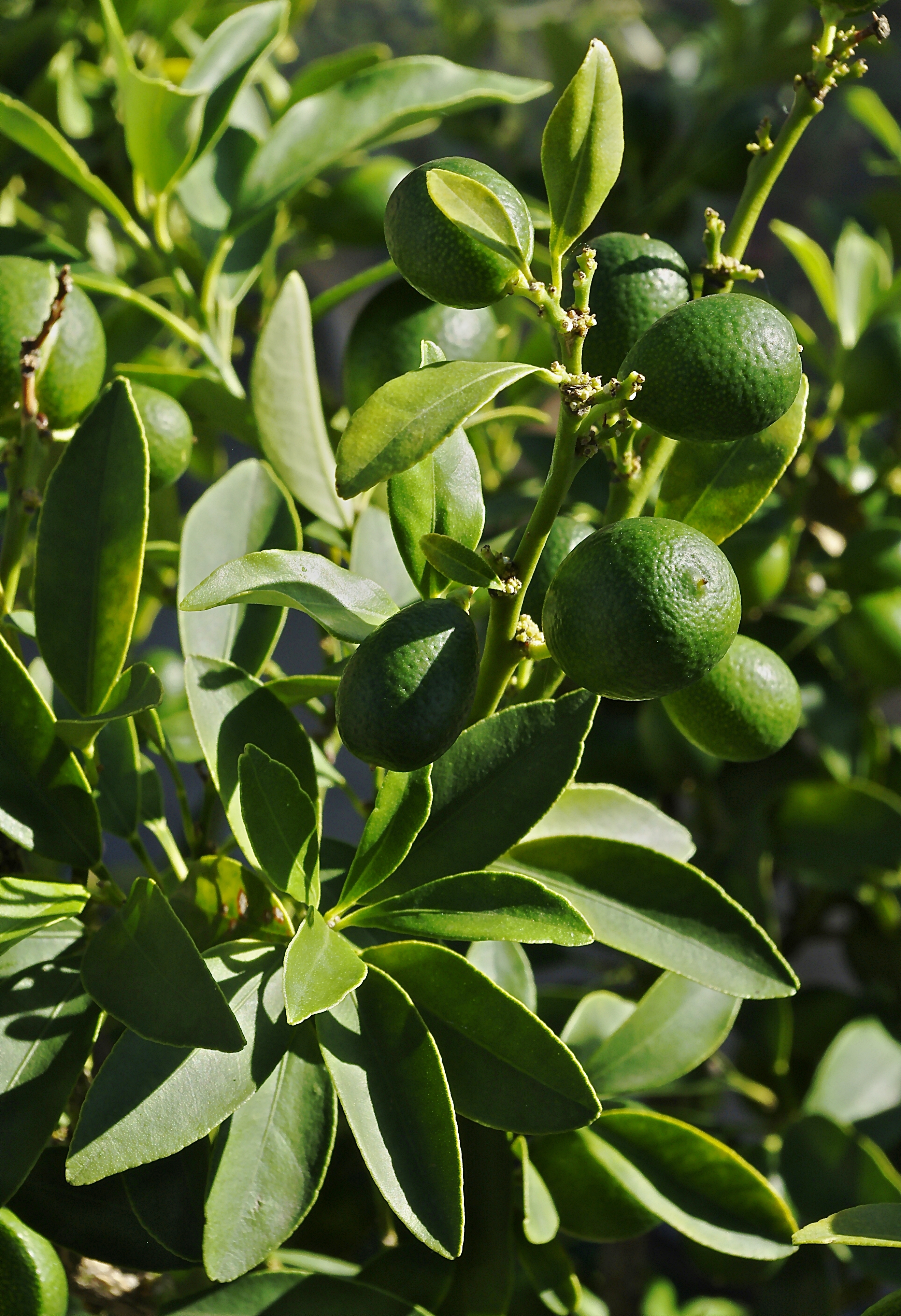 Oval kumquat (Fortunella margarita) : leaves and green fruit, in a garden, France.